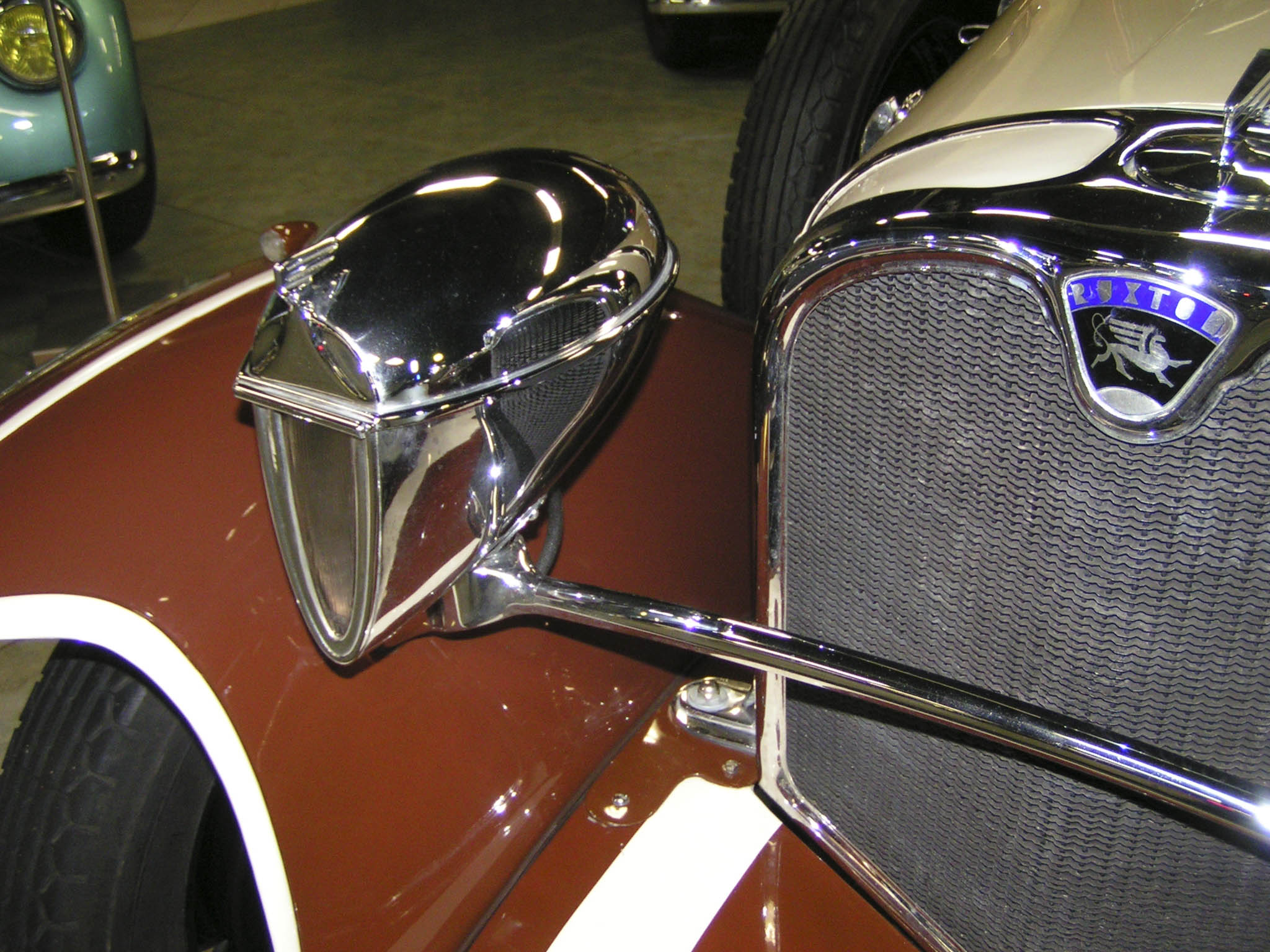 First attempt at an American front wheel drive car in the USA - this is a prototype from 1929. Features a Continental eight cylinder engine and three speed gearbox for a 70mph top speed.